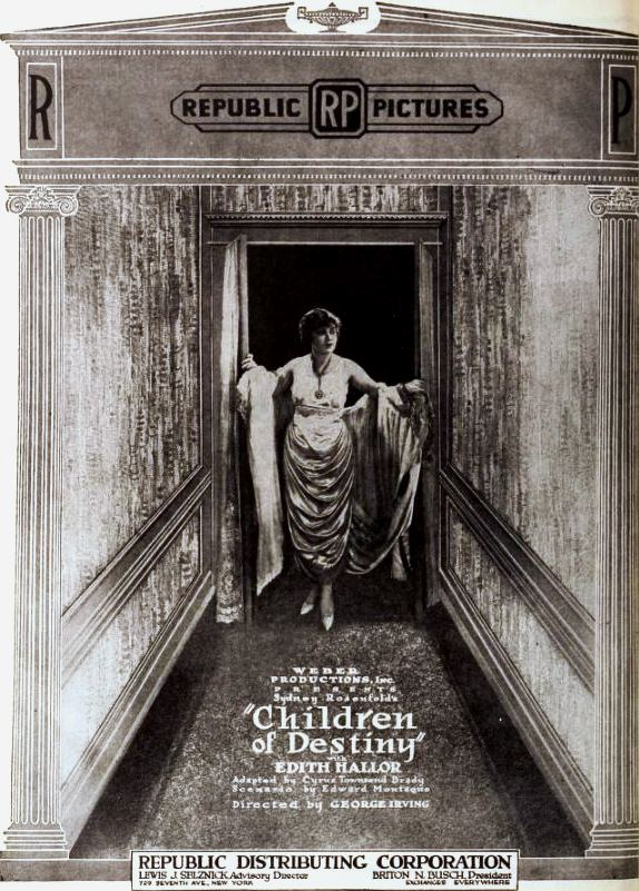 Advertisement for the American drama film Children of Destiny (1920) with Edith Hallor, on page 22. of the May 22, 1920 Exhibitors Herald.